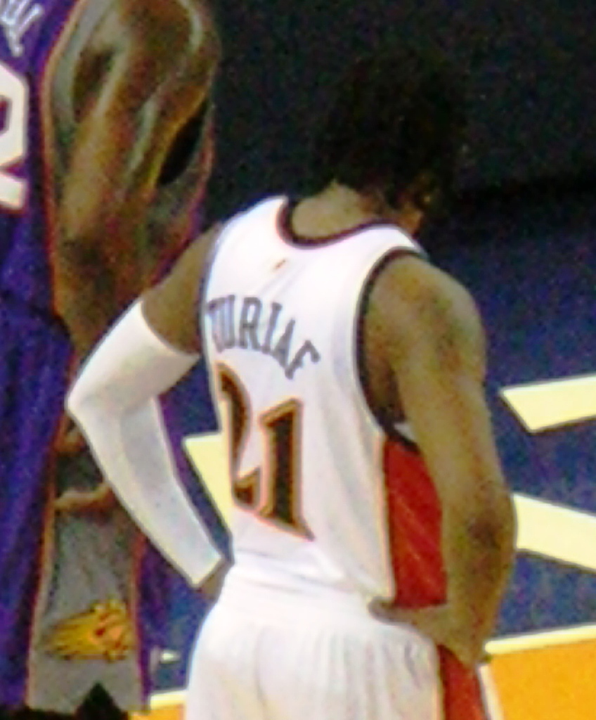 Golden State Warriors power forward Ronny Turiaf at a home game against the Phoenix Suns. The Suns won 154-130.